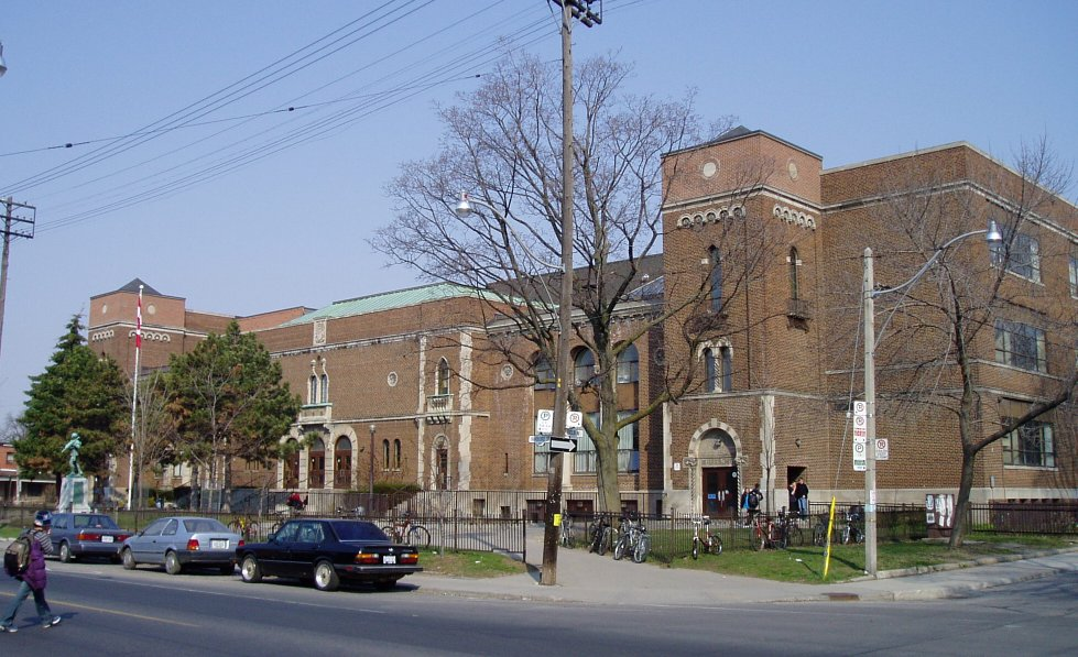 Taken by SimonP in April 2005